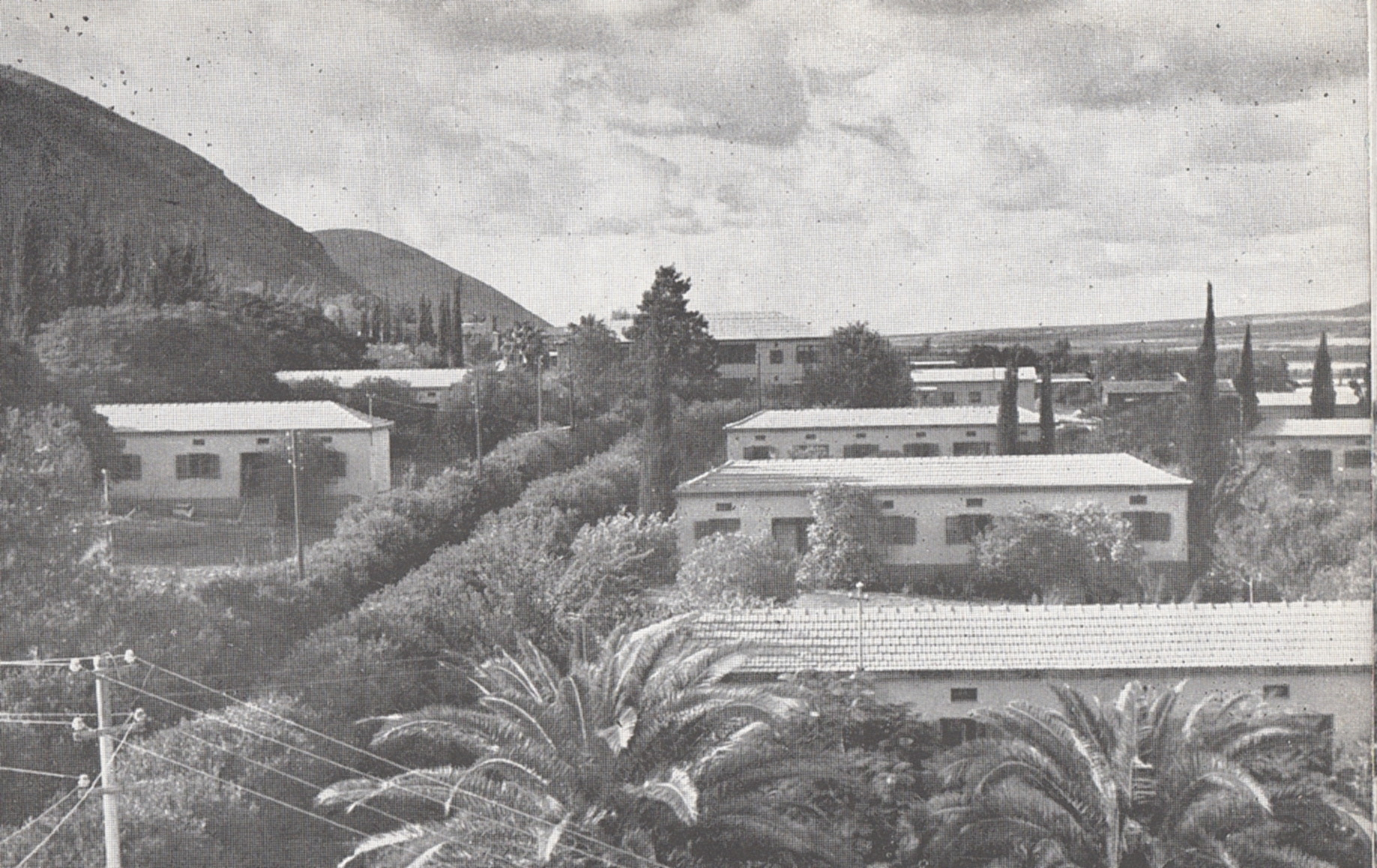 Kibbutz Beit Alfa, Settlements in Israel